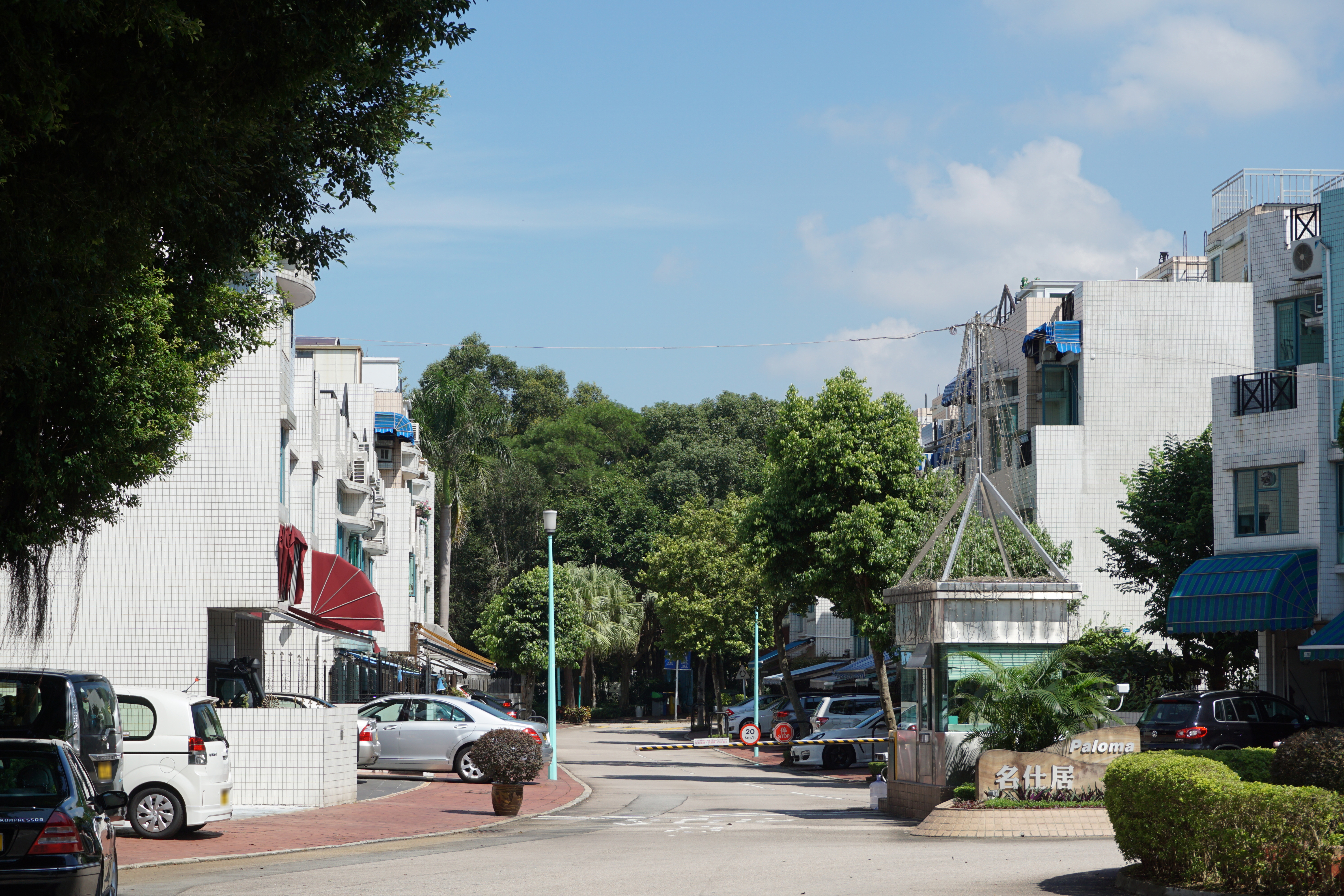 Palm Springs in Wo Shang Wai, Hong Kong.